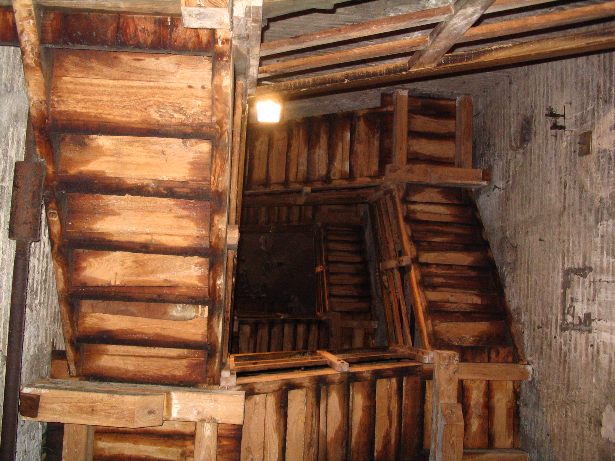 I, ZeWrestler, took this picture over the summer when I was in Italy. The picture is of the inside of the taller of the Two Towers, the Tower called Asinelli. I took this picture looking up showing how many stairs were left to climb. The picture was taken on June 26, 2006, with my digital camera, a Canon PowerShot A75. I release the image into public domain for all purposes and uses.